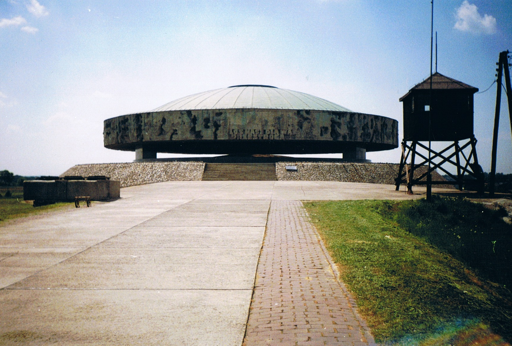 Monument at Majdanek Memorial and watchtower